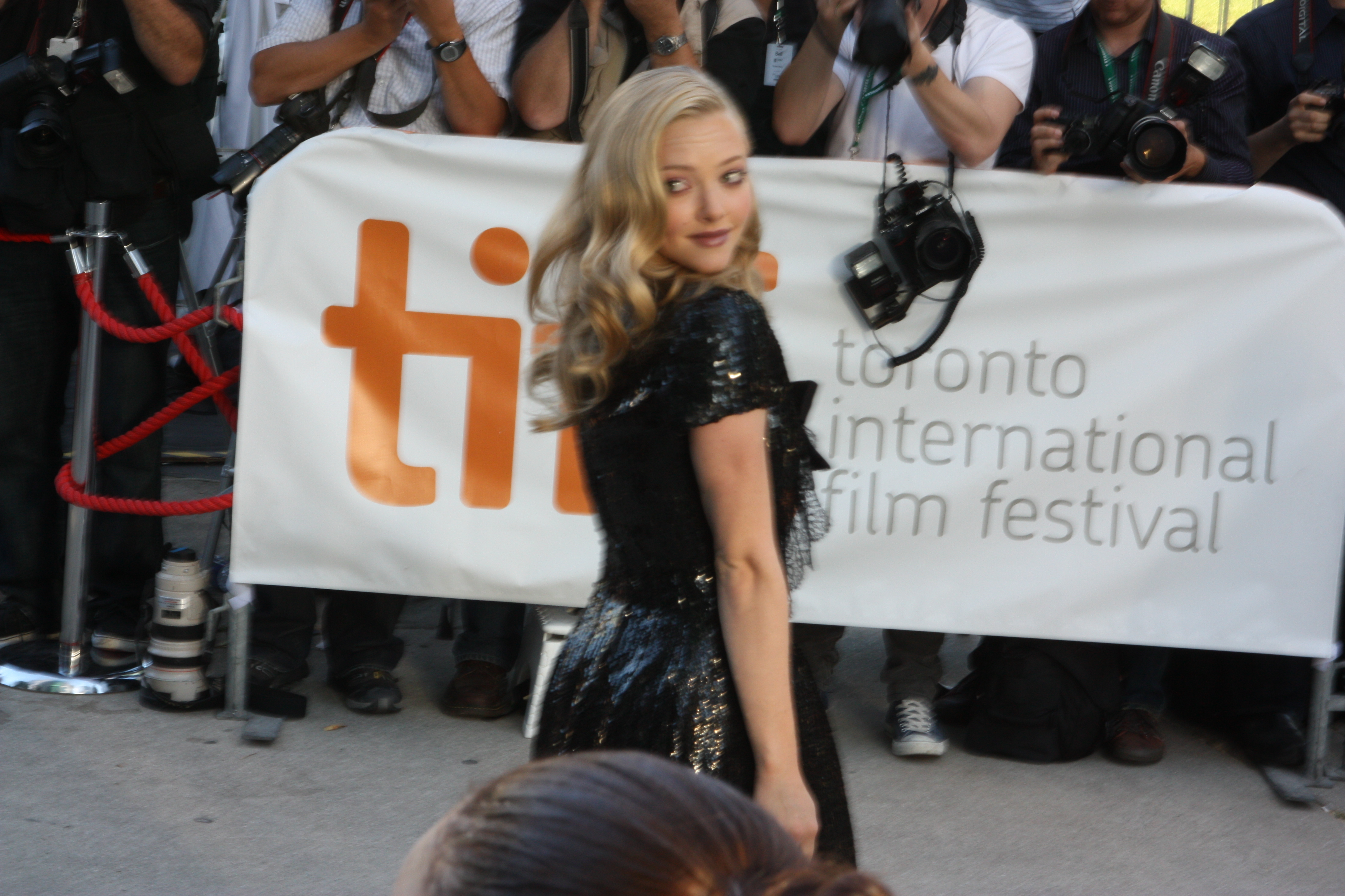 Amanda Seyfried attending the premiere of Chloe